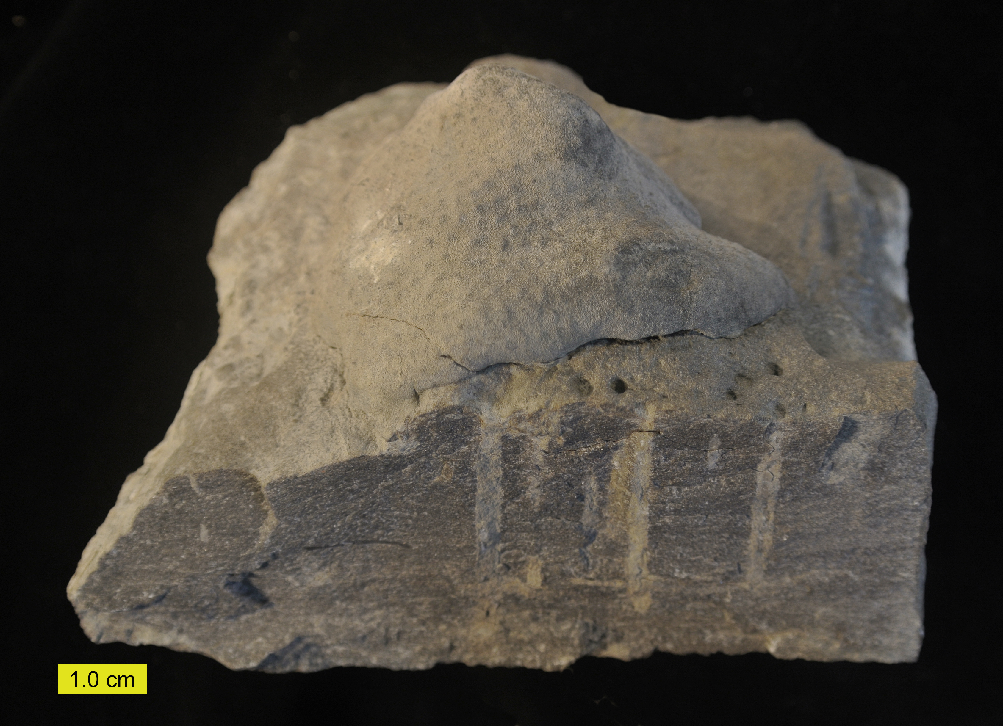 Carbonate hardground with a bryozoan (Stigmatella personata) and borings from the Upper Ordovician of northernn Kentucky, USA.